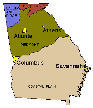 Map showing the four geologic regions of Georgia. Source: USGS calim of PD unless otherwise noted [1]